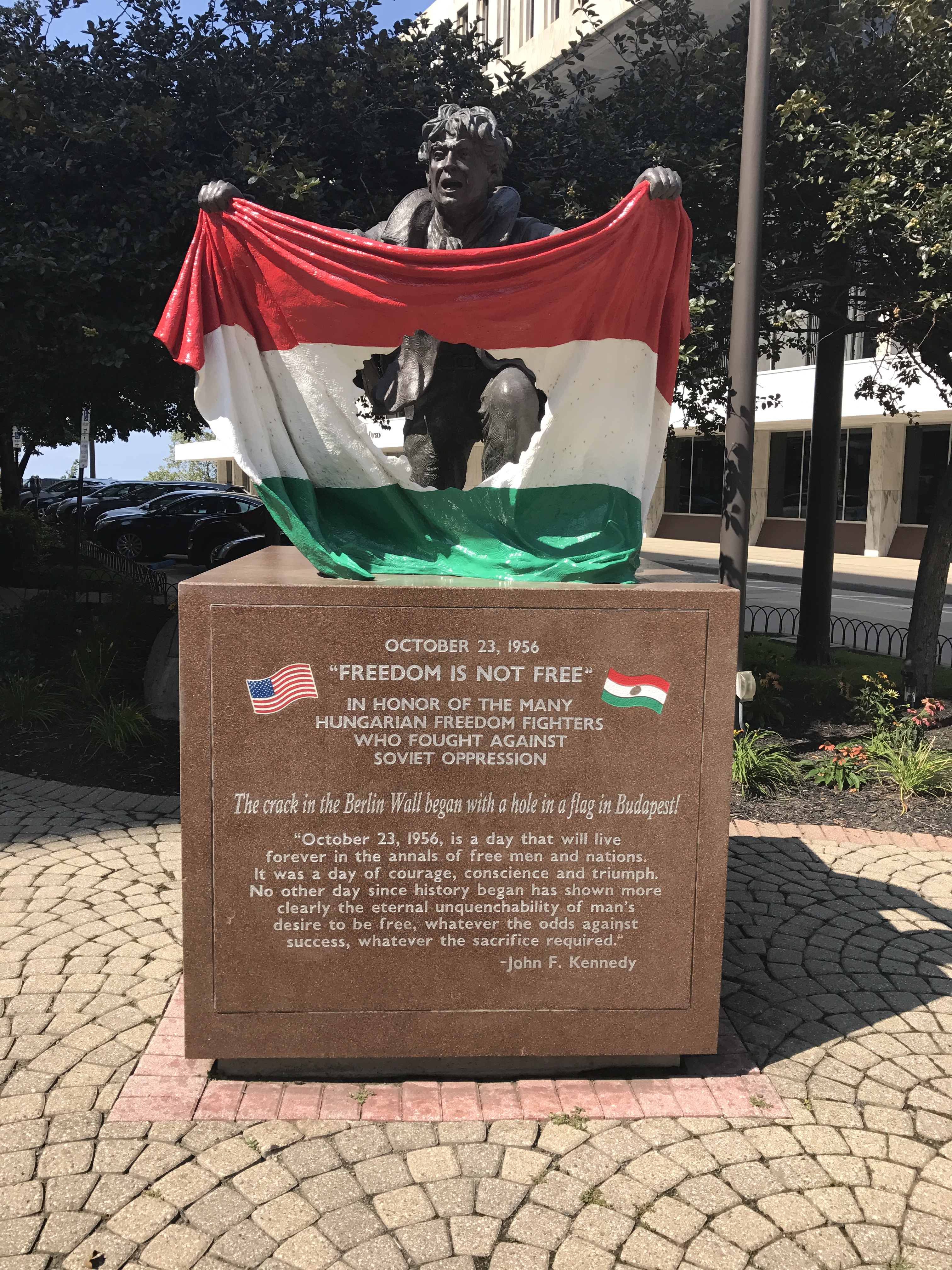 Monument entitled "Freedom Is Not Free". Erected to honor the Hungarian Freedom Fighters who fought against Soviet oppression beginning on 23 October 1956 and lasting through 10 November 1956. Front of monument states "The crack in the Berlin Wall began with a hole in a flag in Budapest!"